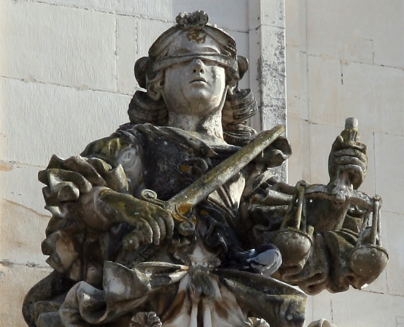 Lady Justice on the front of the church, Alcobaça Monastery, Portugal